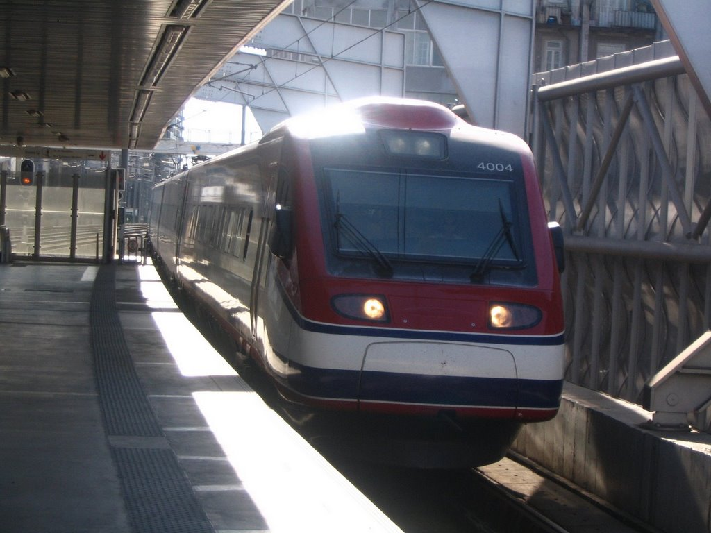 Alfa Pendular is the tilting-train service along the Portuguese coastline. See more tilting trains (and please add your photos) at my Tilting trains (Pendolinos) group!